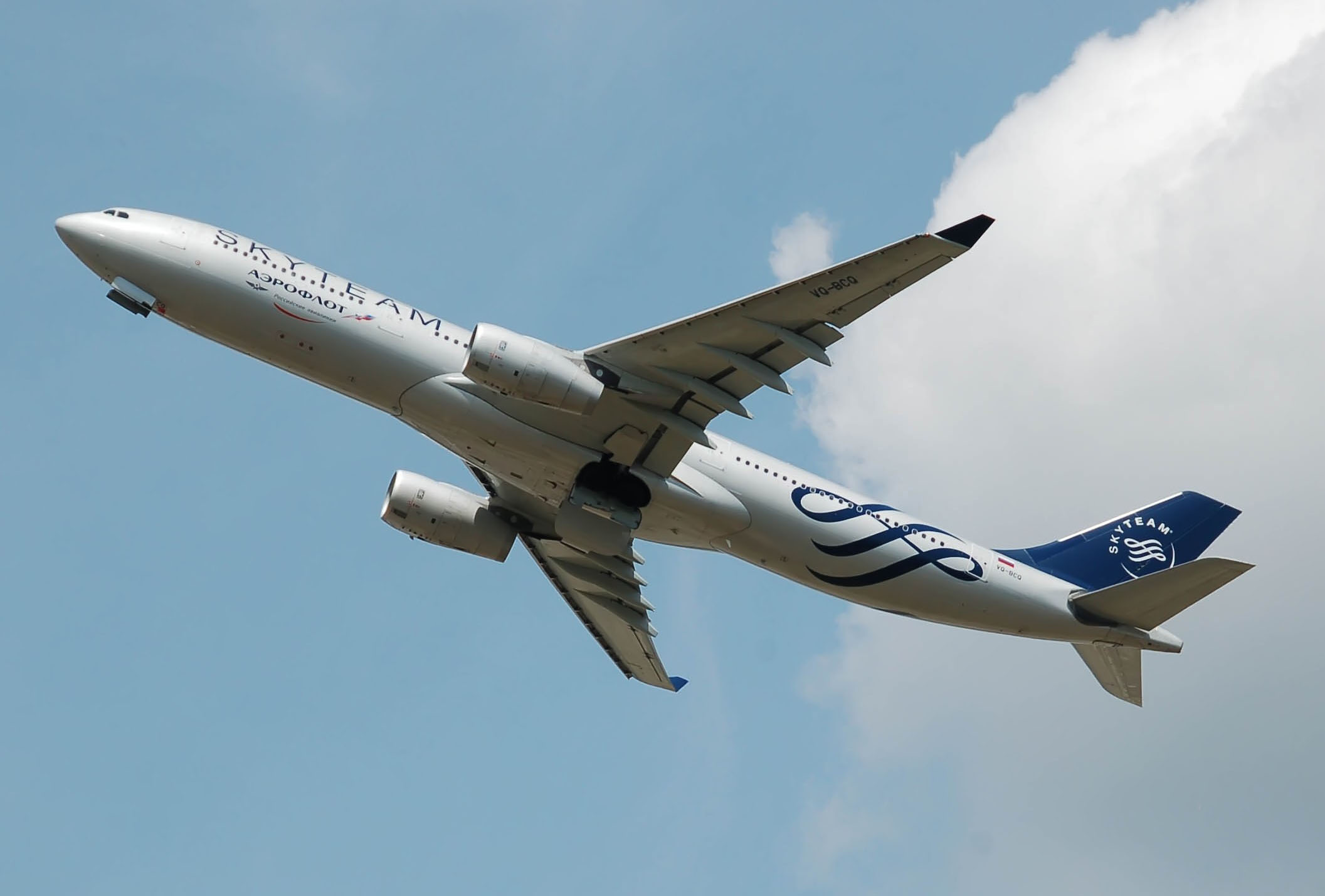 Aeroflot Airbus A330-300 (VQ-BCQ) departs London Heathrow Airport, England, on 2nd July 2014. The undercarriage doors are yet to close.